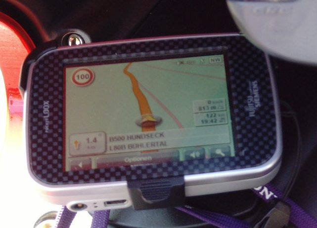 Fujitsu Siemens Pocket LOOX N110 Navigator